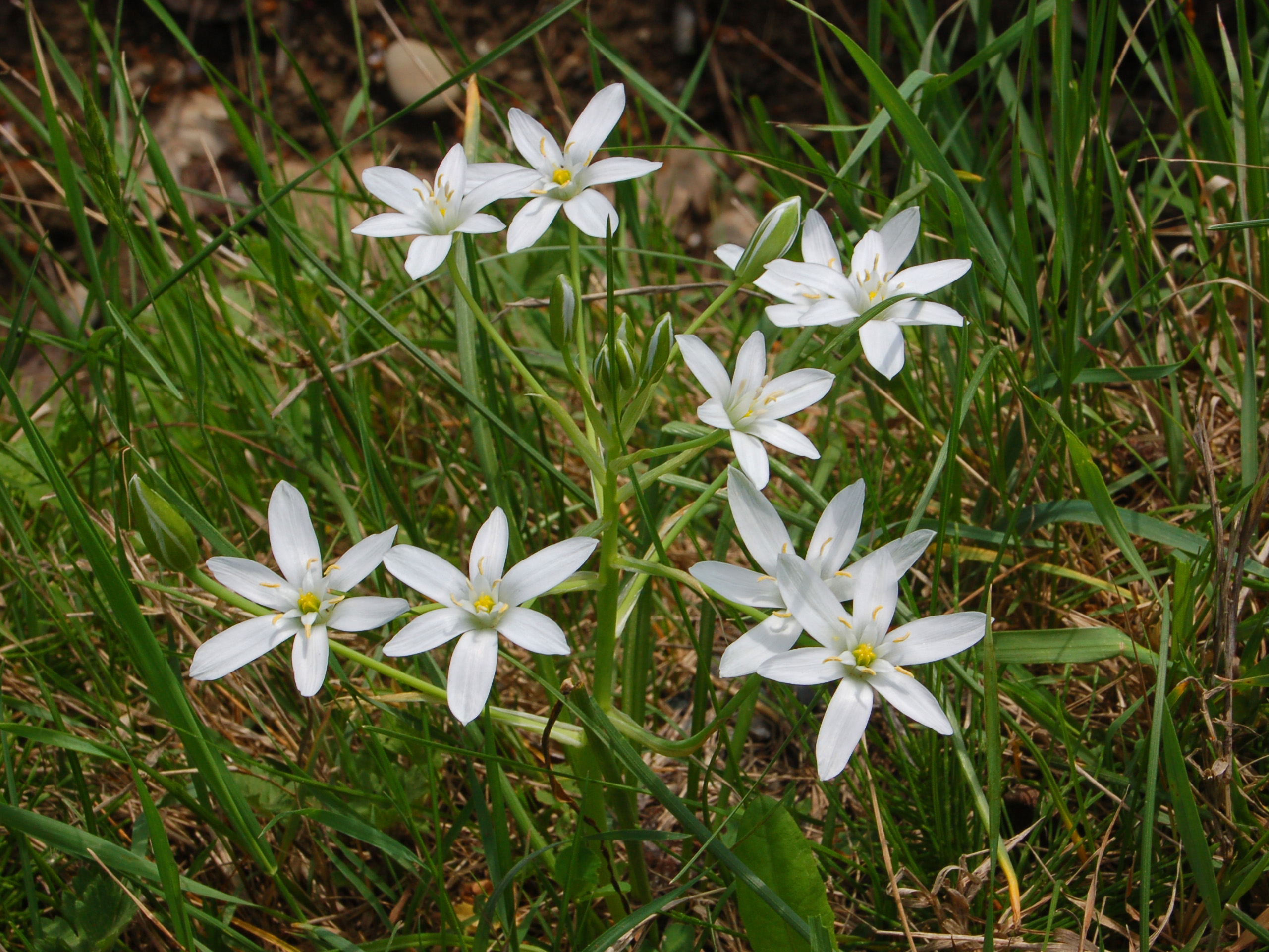 Ornithogalum umbellatum - Cerreto, Alessandria, Italy